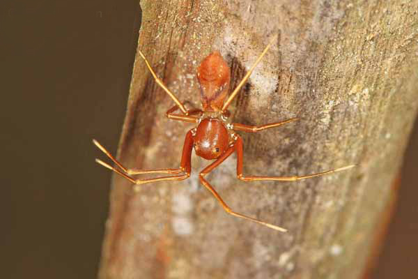 Ant-mimic crab spider from Coorg.